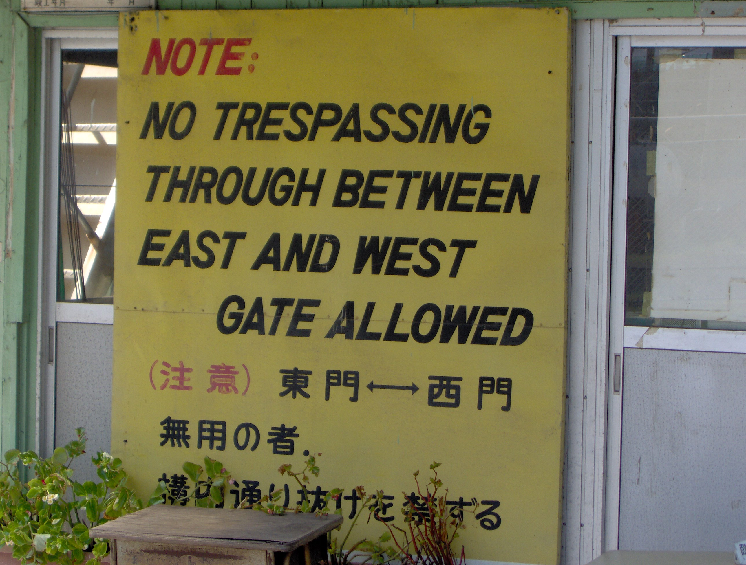 I took this picture in Sasebo, Japan with my own camera.